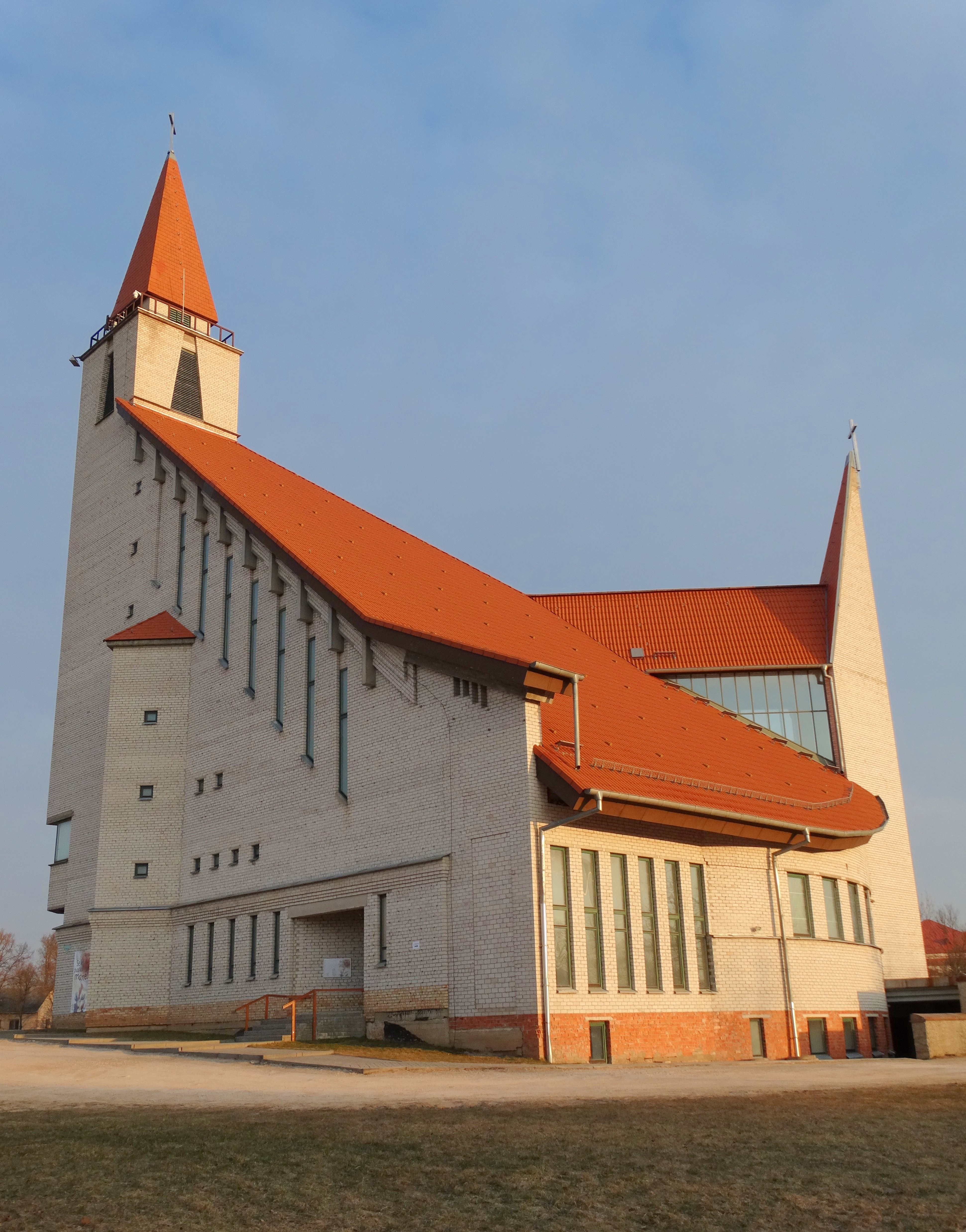 Church of the Holy Spirit in Naujoji Akmenė, Lithuania